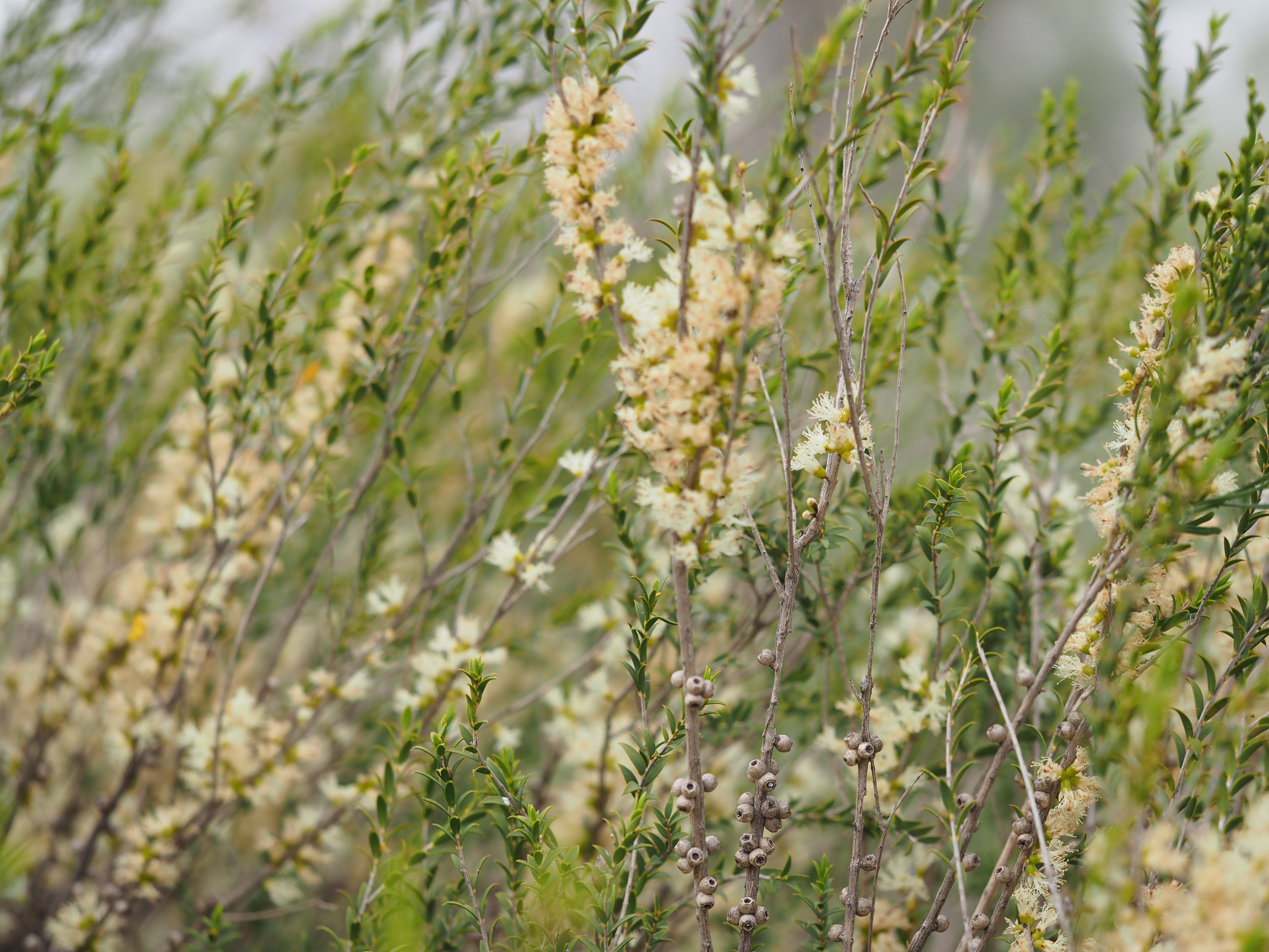 Melaleuca acuminata acuminata foliage, flowers and fruit growing in the Kalgarin Nature Reserve near Corrigin